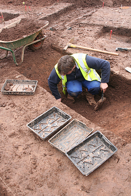 Cullompton: by Longlands Lane 2 Matt Palmer of South West Archaeology working in a Roman trench on a site due to be built over by housing in 2010